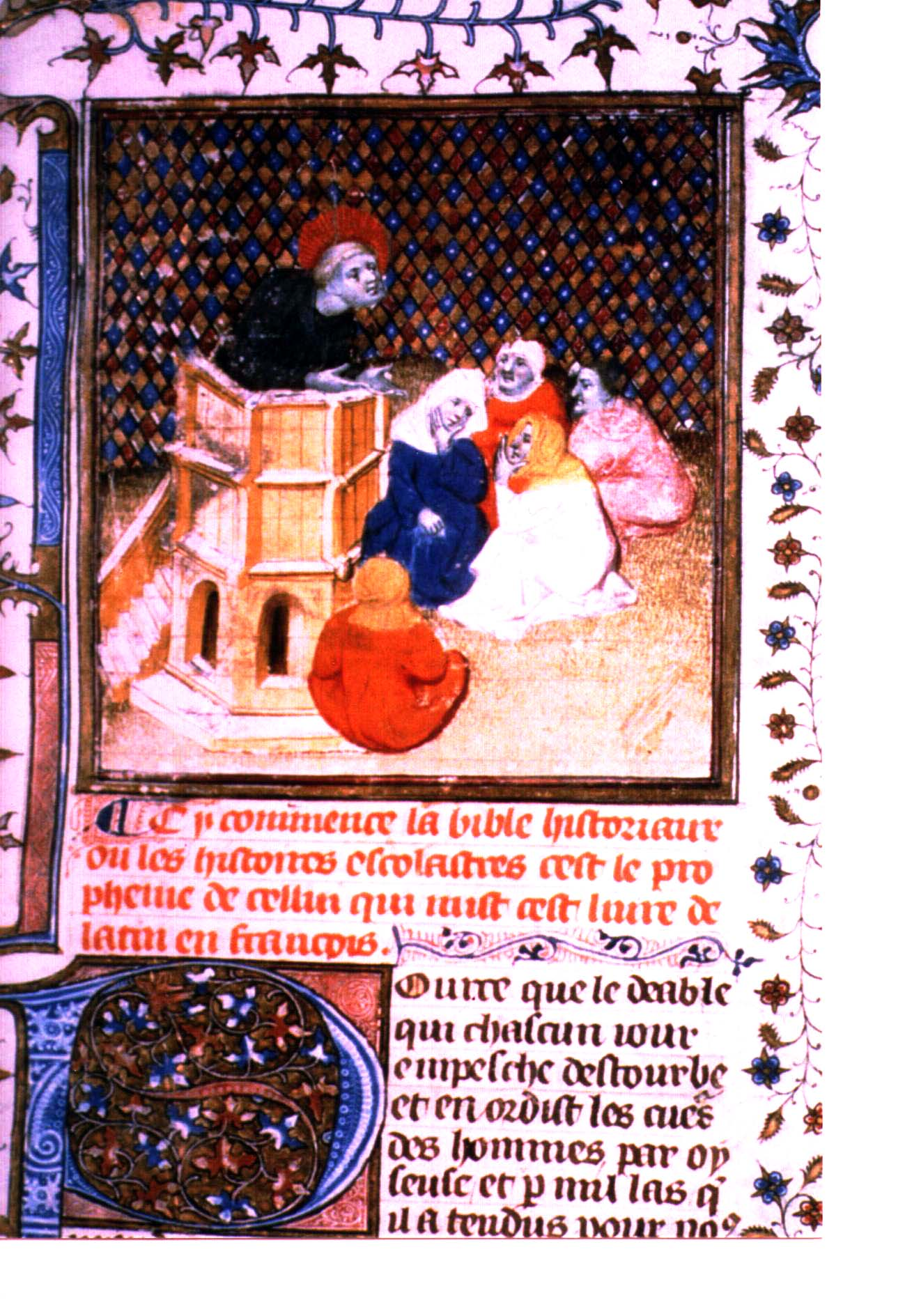 miniature Bible Historiale. Preaching Preacher